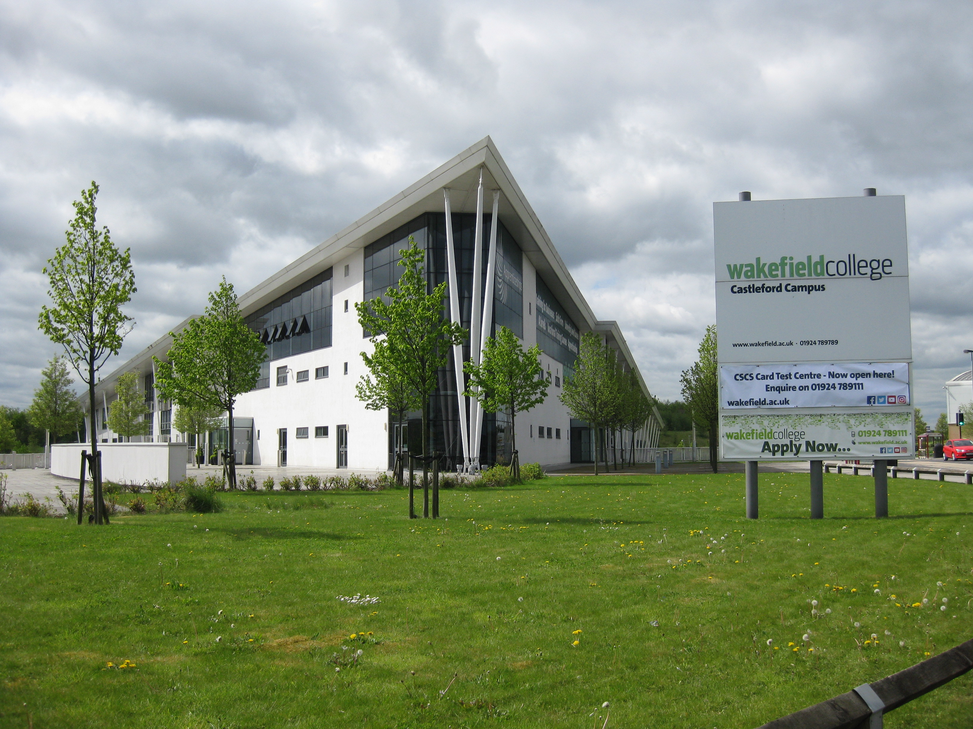 Castleford Campus of Wakefield College, Thunderhead Ridge Castleford, West Yorkshire WF10 4UA. Just off the A639